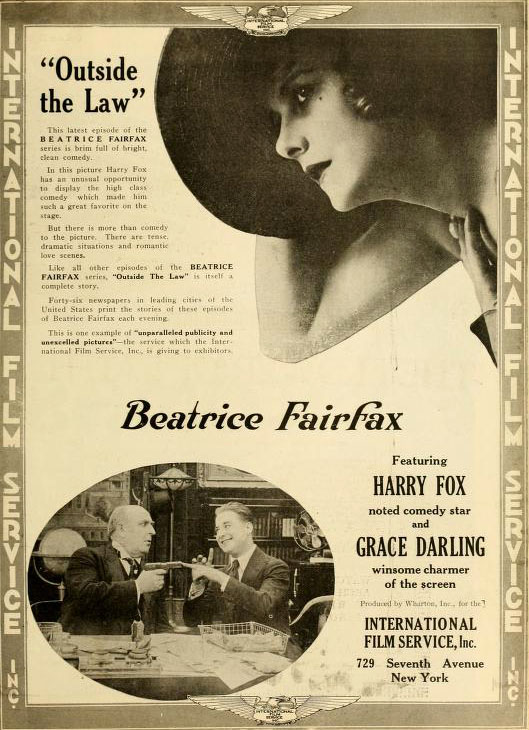 Advertisement in Moving Picture World for the American film serial Beatrice Fairfax.